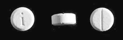 2C-I tablet from Denmark.